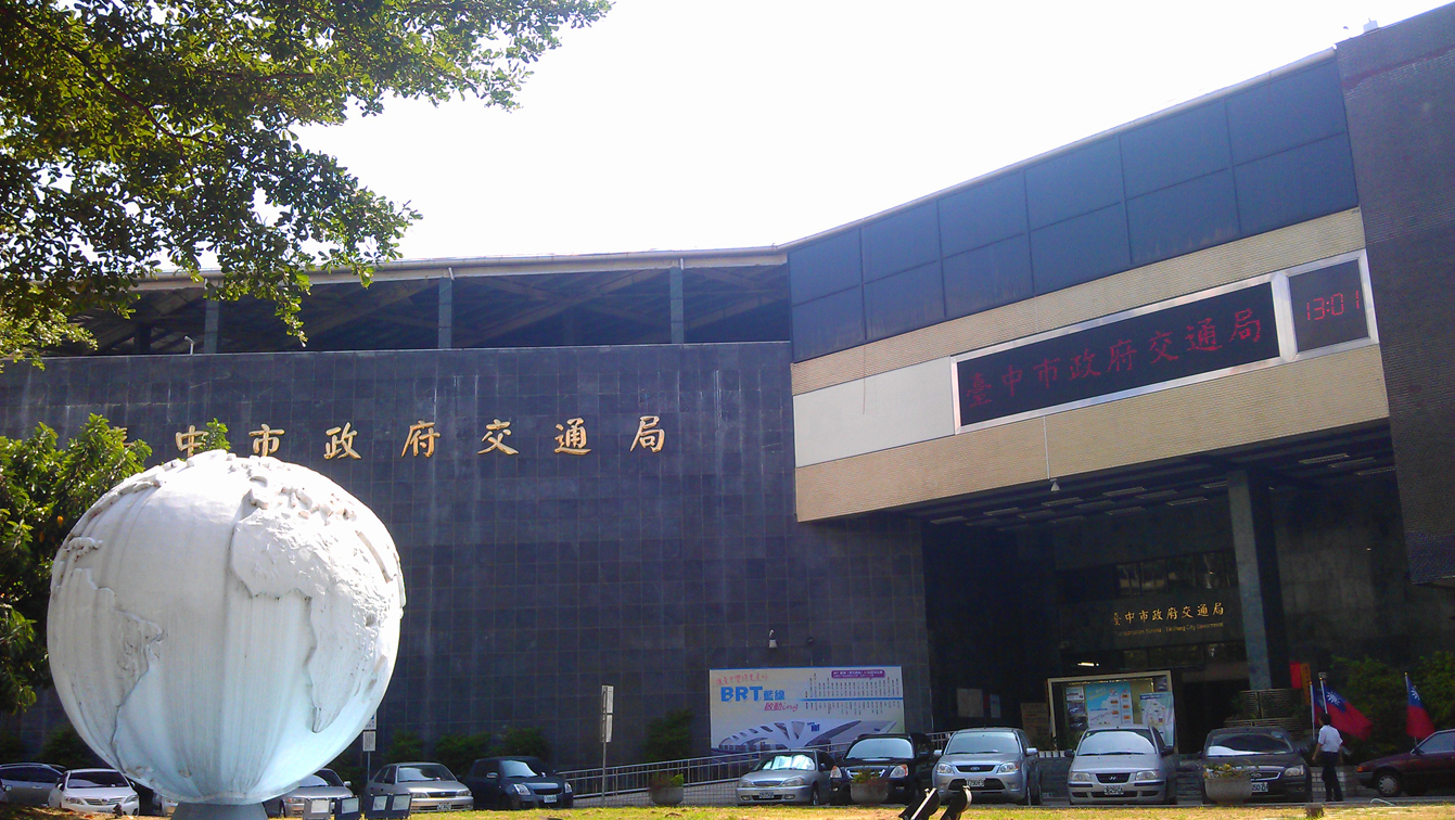 Transportation Bureau, Taichung City Government中文（台灣）: 台中市政府交通局